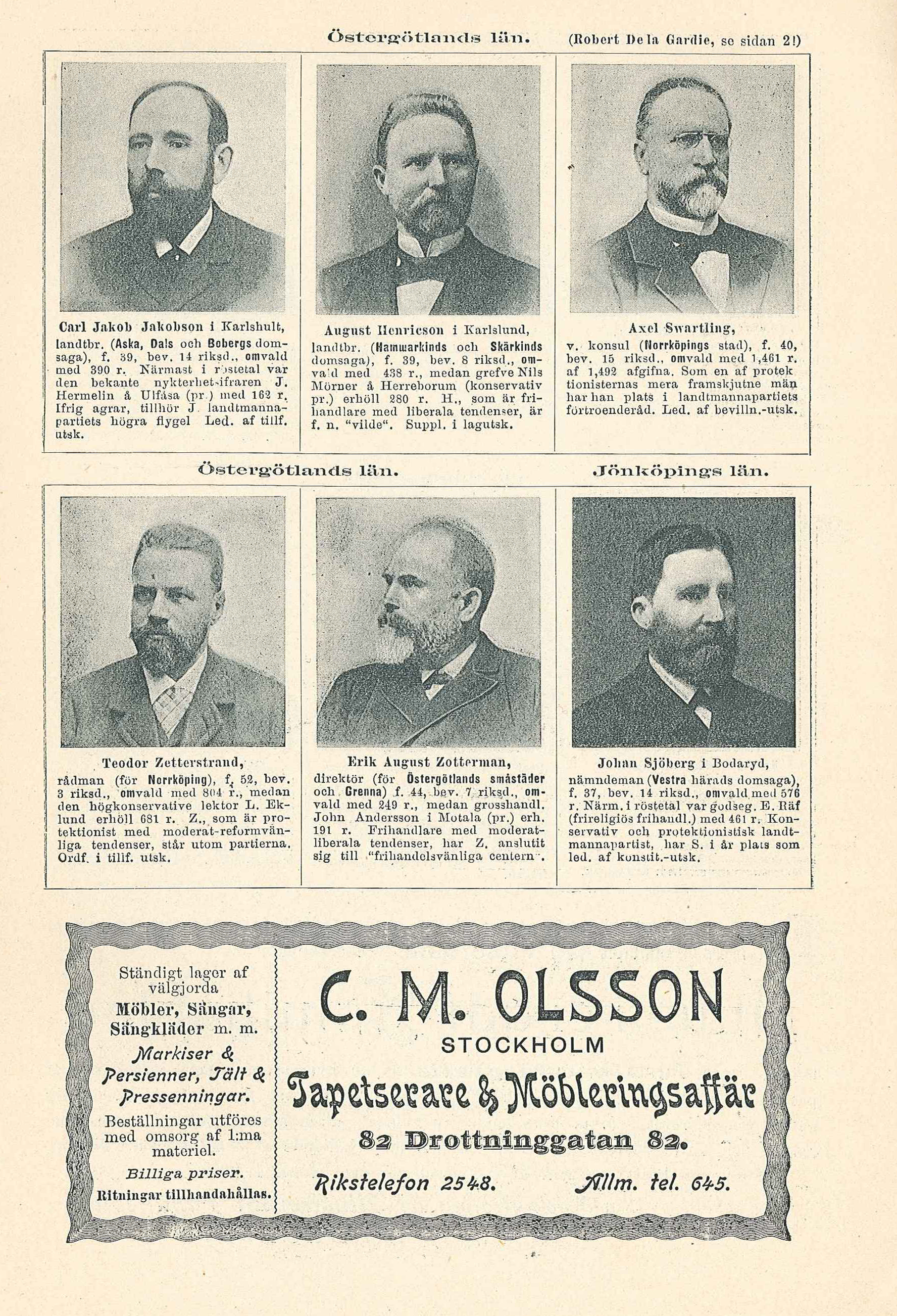 Page 11 of an album featuring portraits of all the members of the second chamber of the Swedish parliament (Sveriges riksdag) elected in 1897. This page featuring parts of the members representing the counties of Östergötland and Jönköping.